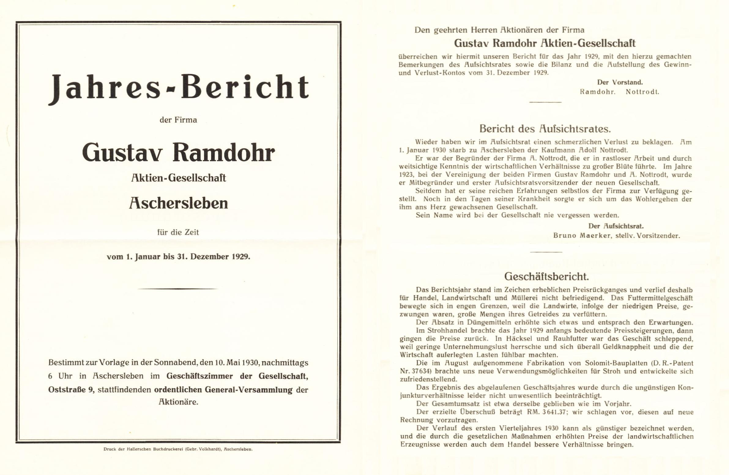 Share holders Report Gustav Ramdohr AG 1929